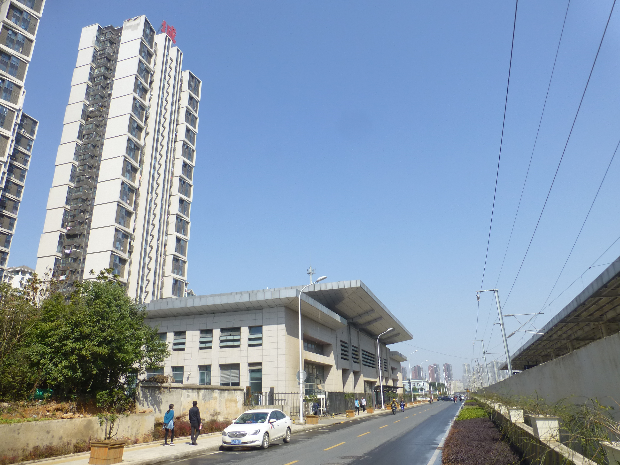 Nanhu East Station of the Wuchang-Xianning commuter railway. It includes a passenger platform between the tracks, and a separate station building across the street, connected with the platform by a pedestrian tunnel.